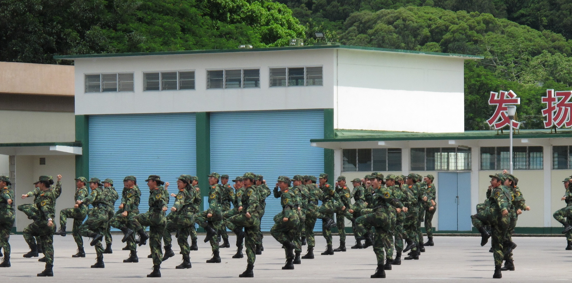 Some MSC participants are performing boxing